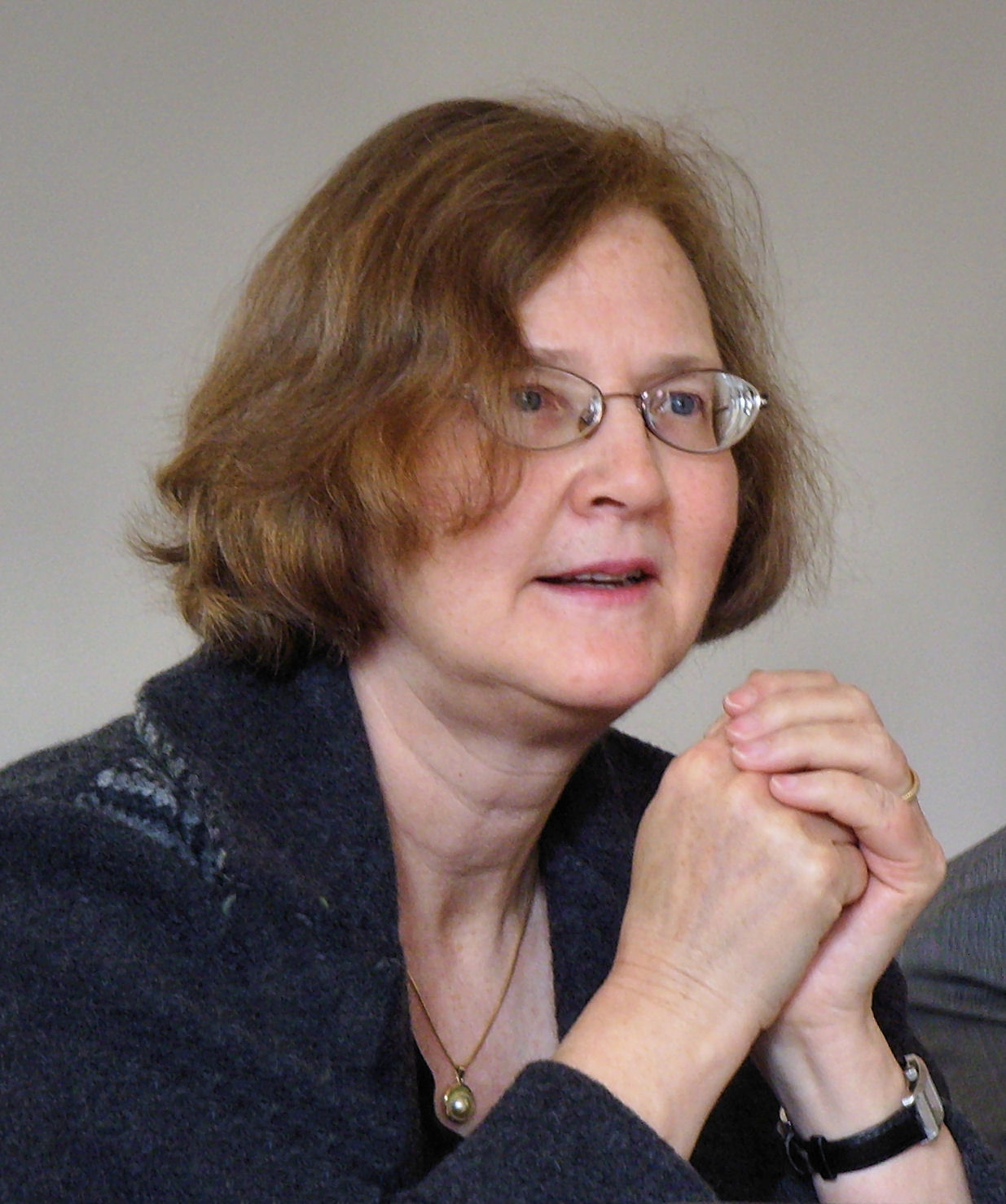 Elizabeth Blackburn FRS (born November 26, 1948 in Hobart, Tasmania) is an Australian-born U.S. biologist who co-discovered the enzyme telomerase. For this work, she was awarded the 2009 Nobel Prize in Physiology or Medicine, shared with Carol Greider and Jack Szostak. The picture was taken at Campus Westend of Goethe-University, Frankfurt am Main, Germany.